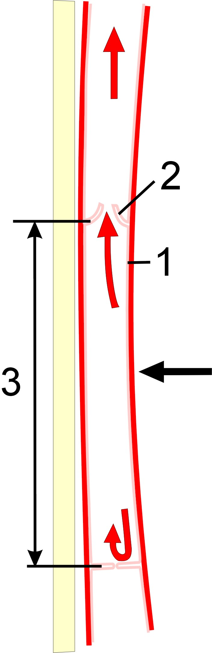 schematic drawing of a valve of a vein 1 Endothel, 2 Valve, 3 Sinus valvulae red arrows indicate blood flow, black arrow indicate external forces (like muscle activity) that drive blood inside the vessel own work, --Uwe Gille 15:03, 3 October 2005 (UTC)